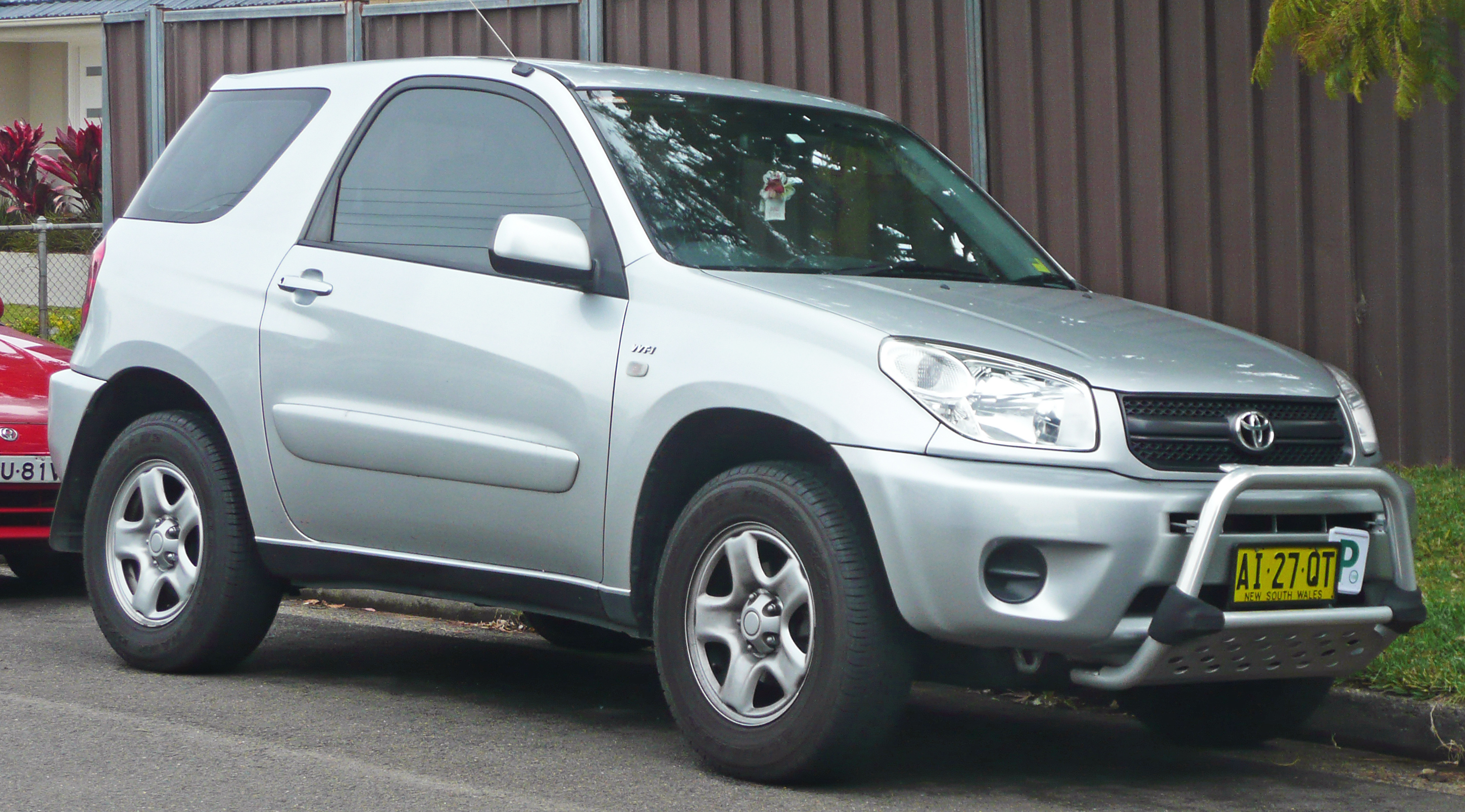 2003–2005 Toyota RAV4 (ACA22R) CV hardtop. Photographed in Cronulla, New South Wales, Australia.